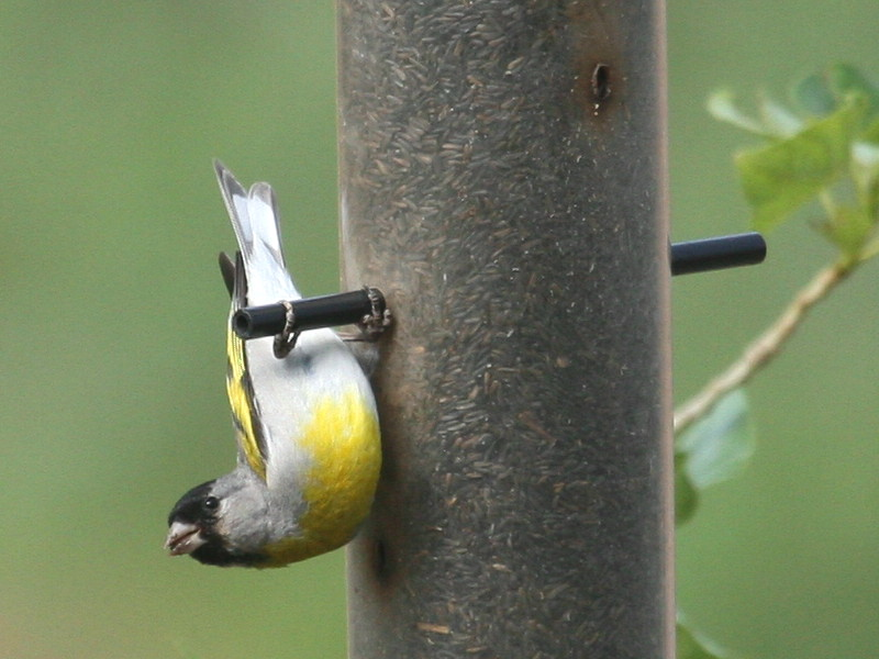 Lawrence's GoldfinchLatina: Carduelis lawrencei